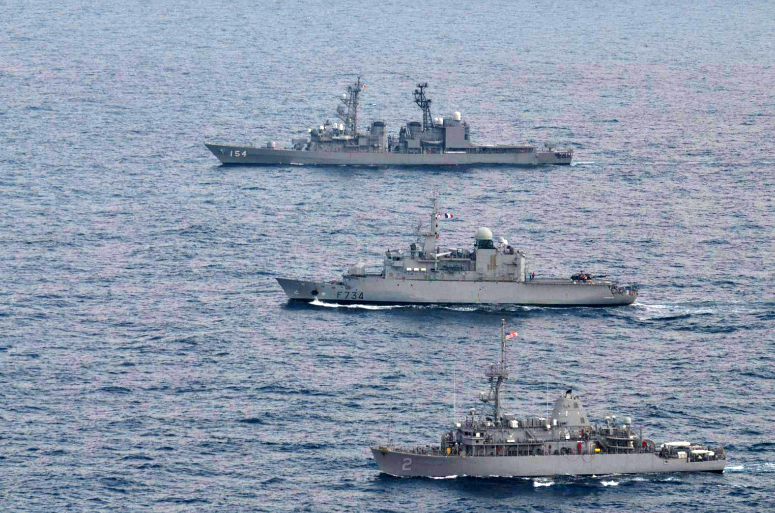 PACIFIC OCEAN(Feb. 28, 2012) The Japan Maritime Self-Defense Force destroyer JS Amagiri (DD 154), the French navy frigate FNS Vendemiaire (F 734) and the mine countermeasures ship USS Defender (MCM 2) maneuver in formation during a passing exercise off the Northwestern coast of Kyushu, Japan. Training during the event included basic communications and navigation drills that helped participants develop relationships and improve their tactical capabilities. (Photo provided by Japan Maritime Self Defense Force/Released) 120228-C-ZZ999-003